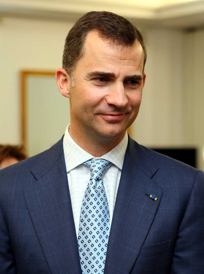 Felipe, Prince of Asturias, in the Polish Senate